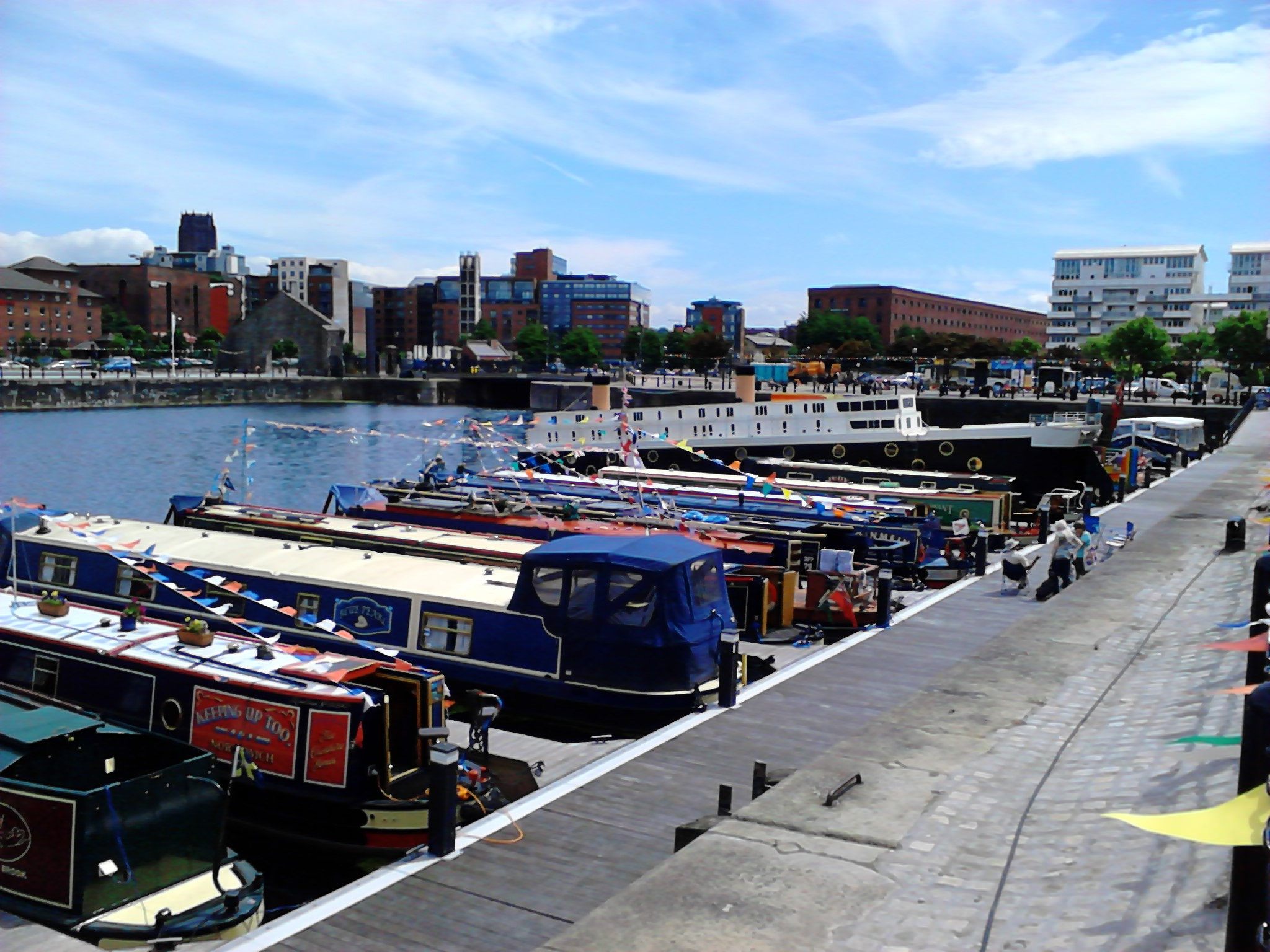 Narrowboats in the Salthouse Dock, Liverpool.